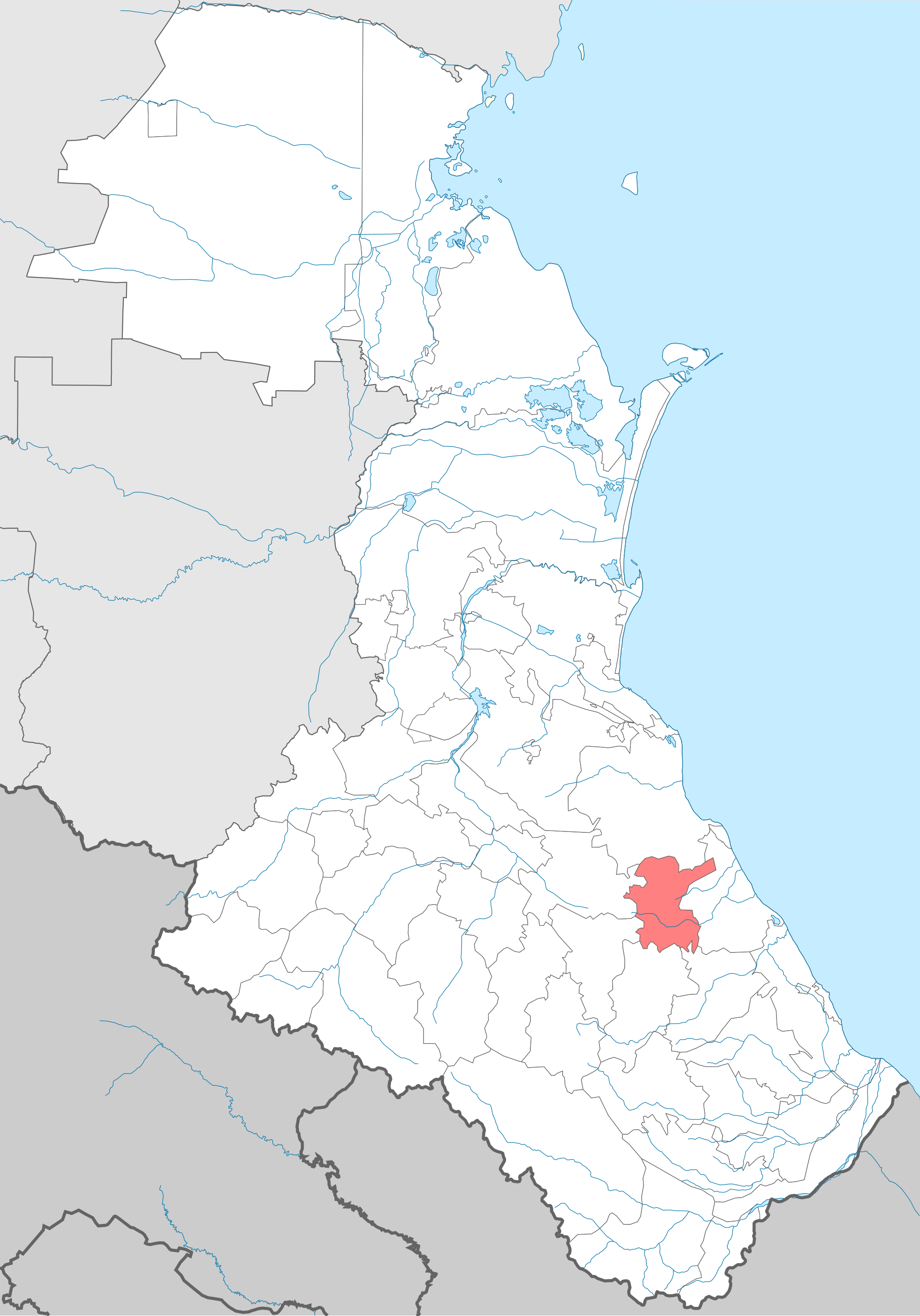 Sergokalinsky district locator map